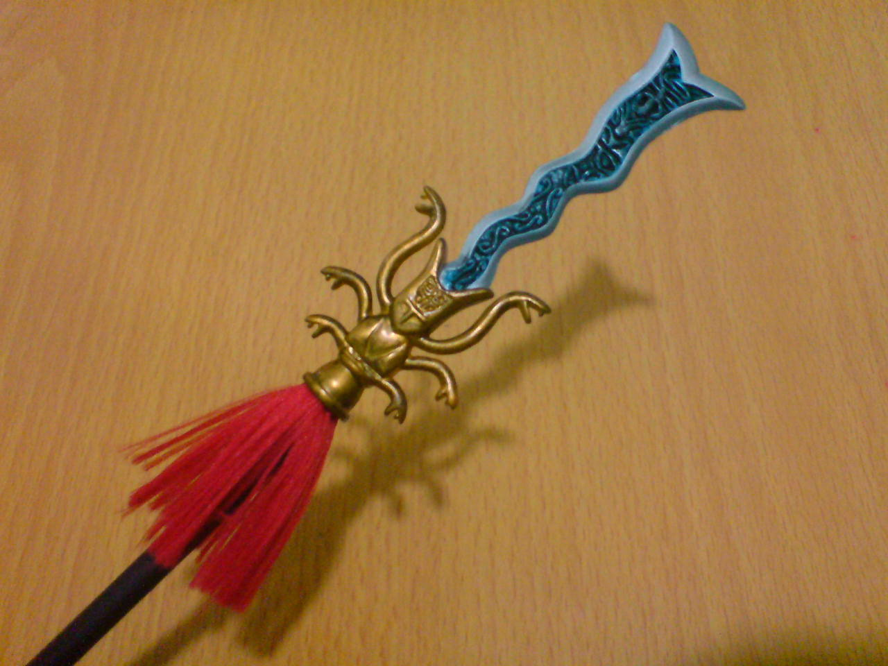 the image of the Chinese weapon: Snake Lance（丈八蛇矛）